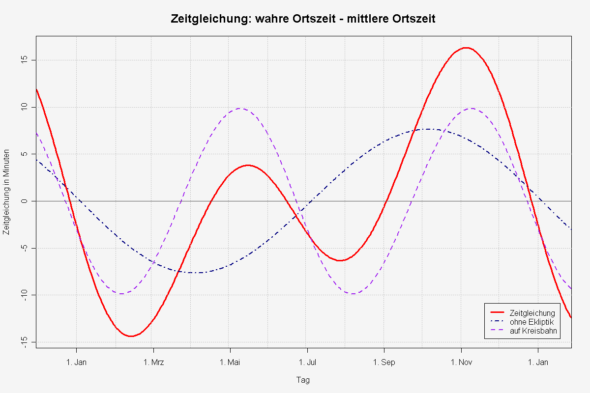 Graph showing the equation of time (red solid line) along with its two main components plotted separately: The part due to the obliquity of the ecliptic (mauve dashed line), i.e. the equation of time without the ecliptic; and The part due to the Sun's varying apparent speed along the ecliptic due to the eccentricity of the Earth's orbit (dark blue dash & dot line), i.e. as if the earth was turning around the sun on a circle.